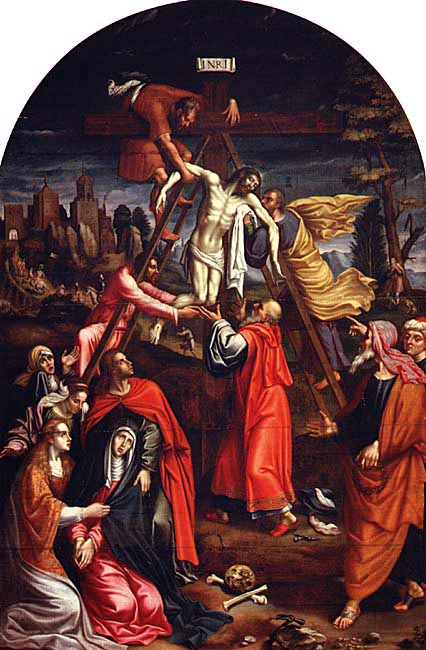 The Deposition